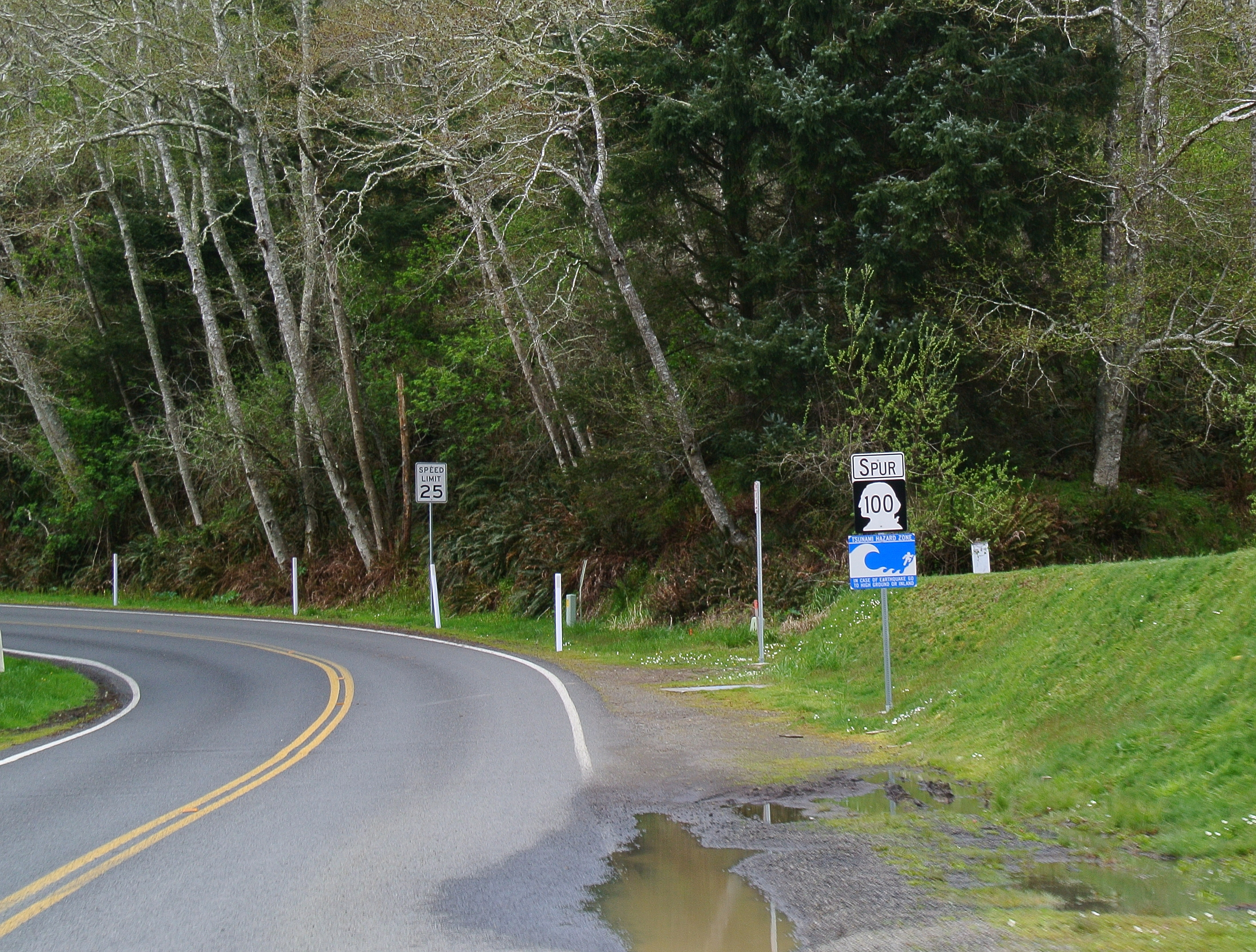 Spur route of Washington state route 100. Nikon 1 V1 + 1 Nikkor VR 10-30mm f/3.5-5.6